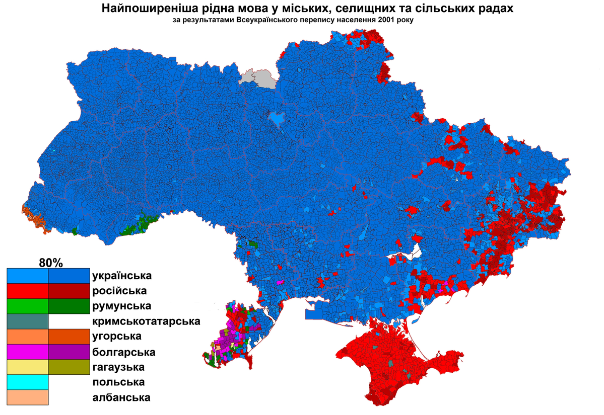 Most common native language in urban and rural municipalities of Ukraine according to 2001 census